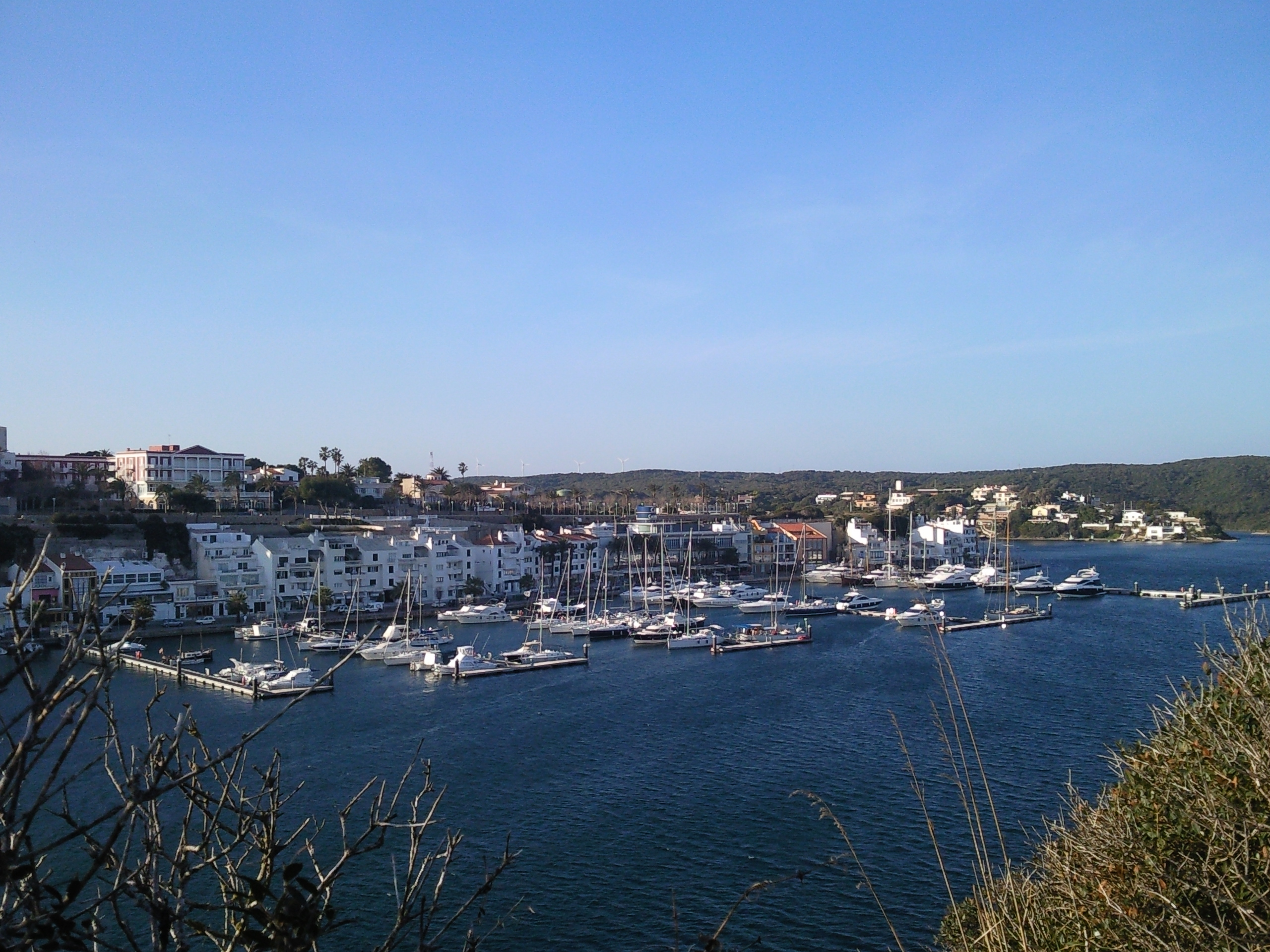 Port Mahon Minorca from Fonduco